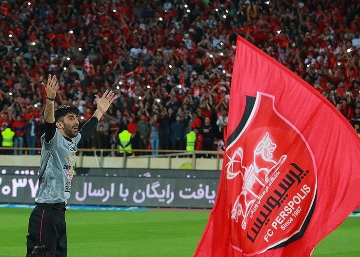 Persepolis F.C. title winning ceremony